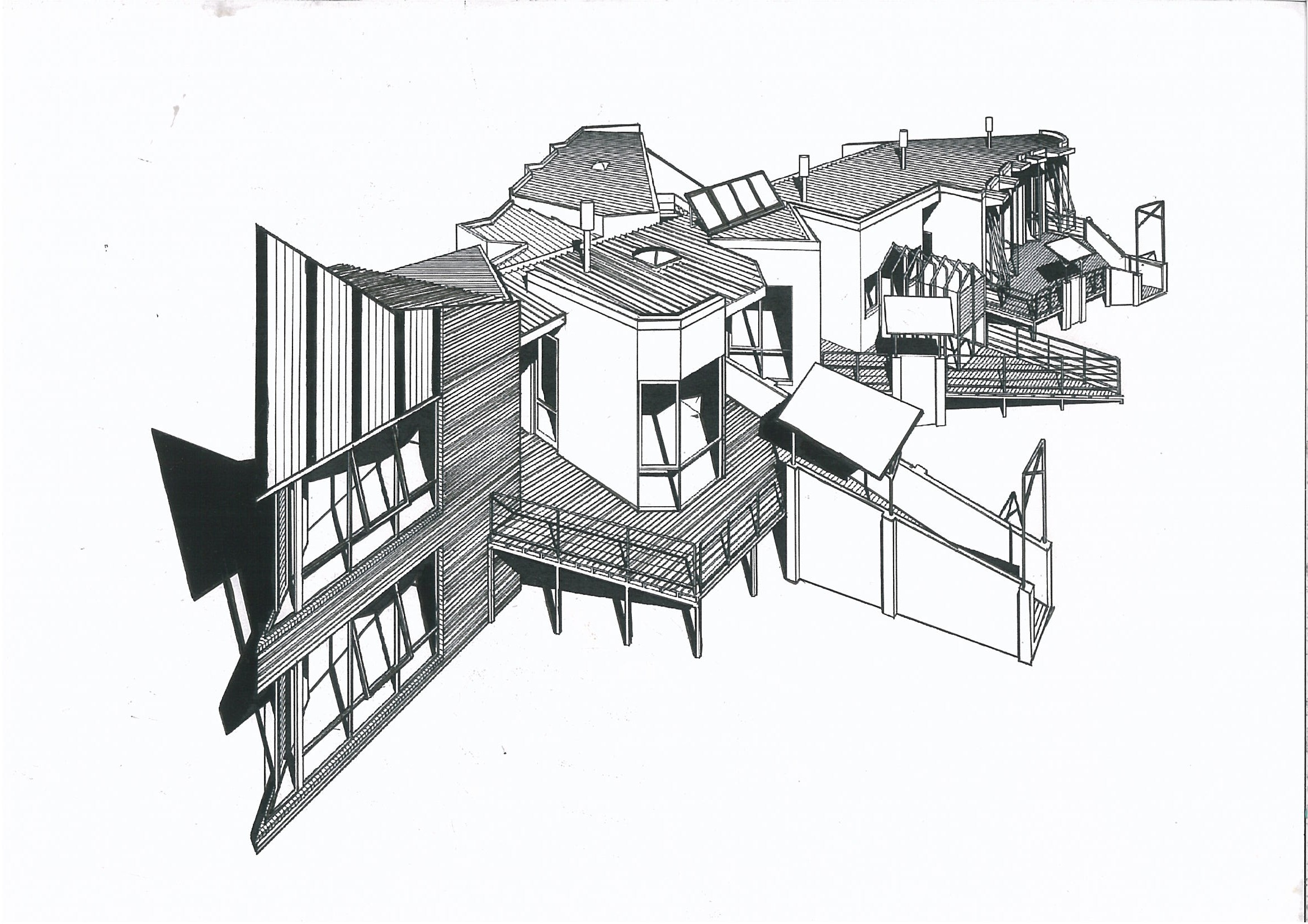 A perspective hand drawing of the Athan House by Edmond and Corrigan